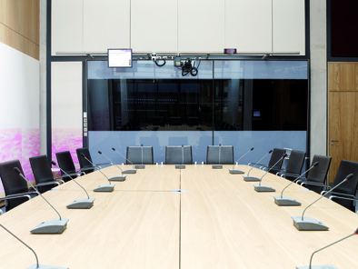 Committee room, Senedd, Cardiff Bay, Cardiff, Wales.